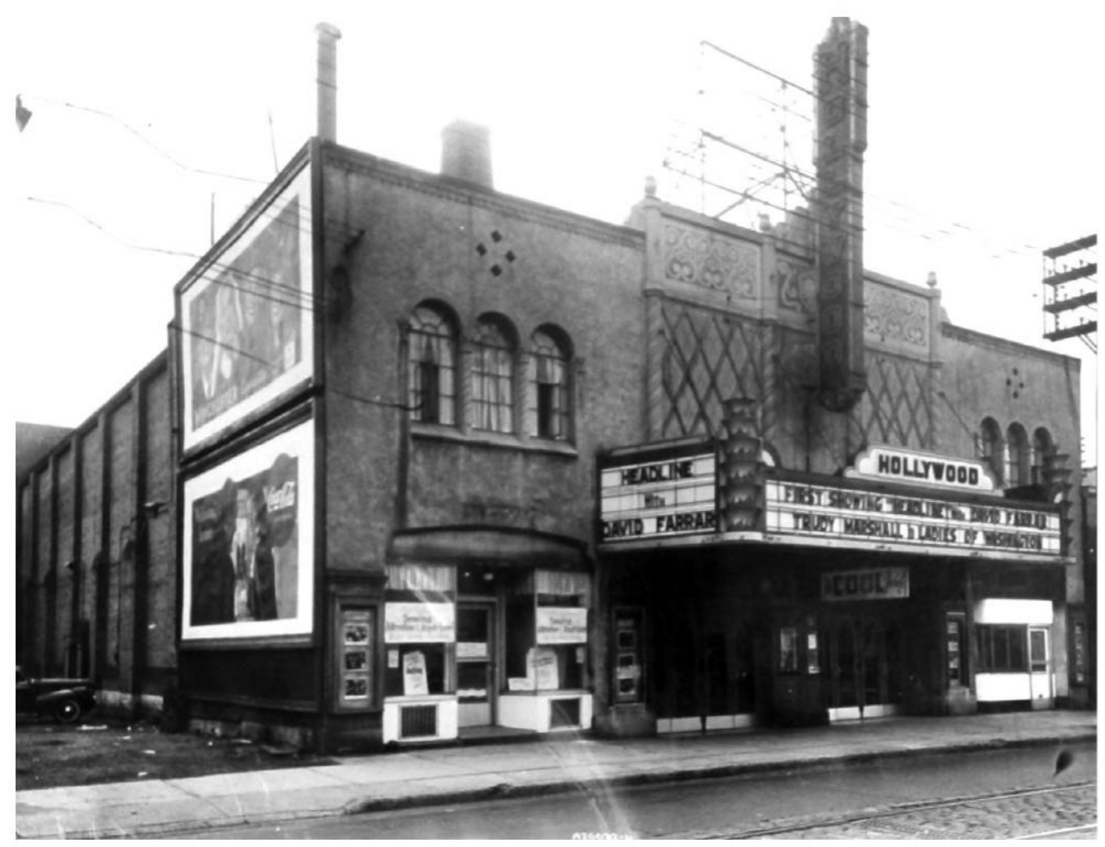 The Hollywood Theatre, in Toronto, in 1945. This image is available from the City of Toronto Archives, listed under the archival citation fonds 251, series 1278, item 83. This tag does not indicate the copyright status of the attached work. A normal copyright tag is still required. See Commons:Licensing for more information.